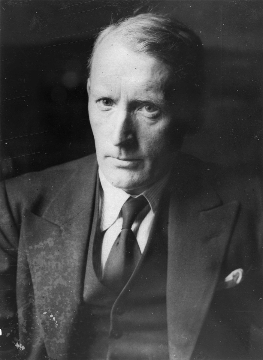 Norwegian physicist and meteorologist Olav Devik (1886–1987)